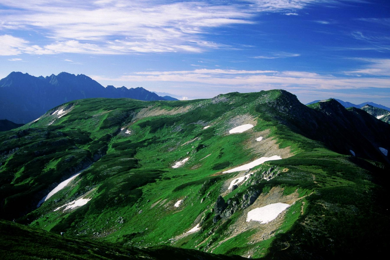 Mount Sugoroku and Mount Hotaka from Mount Maruyama, in Hida Mountains, Japan.